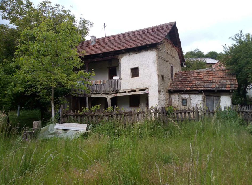 Куќата што Ефтим ја изгради за своето семејство.